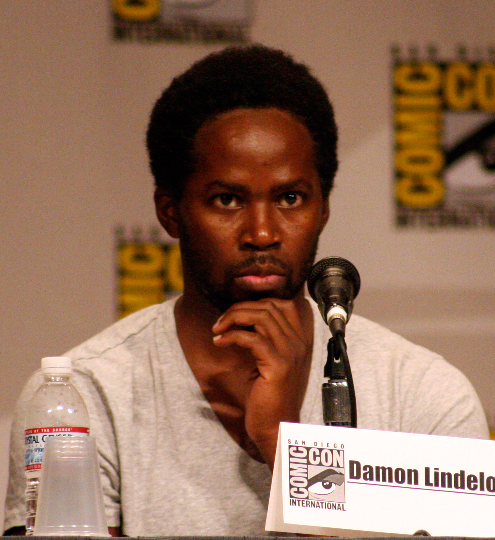 Harold Perrineau, Jr. at the Comic-Con LOST Panel.